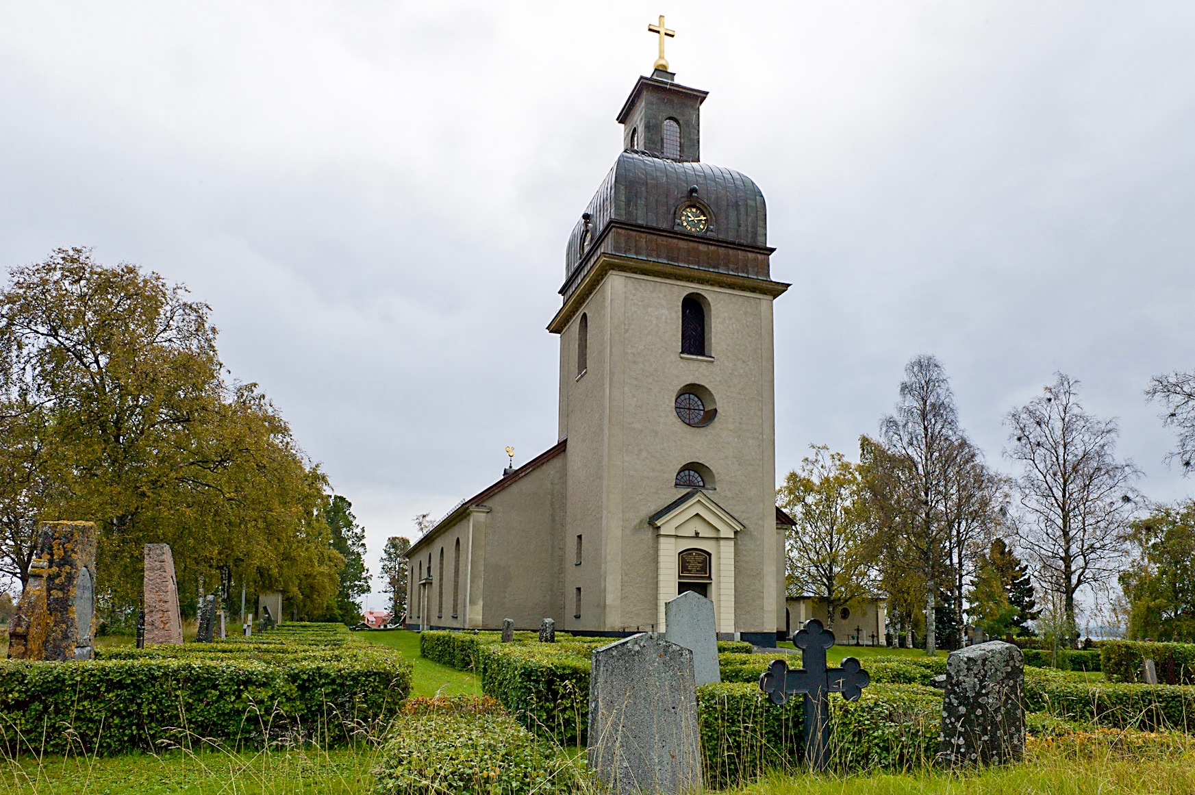 Rödön church